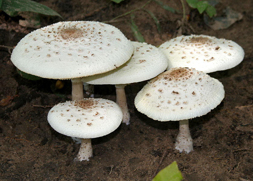 Shaggy Parasol (Chlorophyllum brunneum, syn. Macrolepiota rhacodes var. hortensis, East Bohemia, Europe